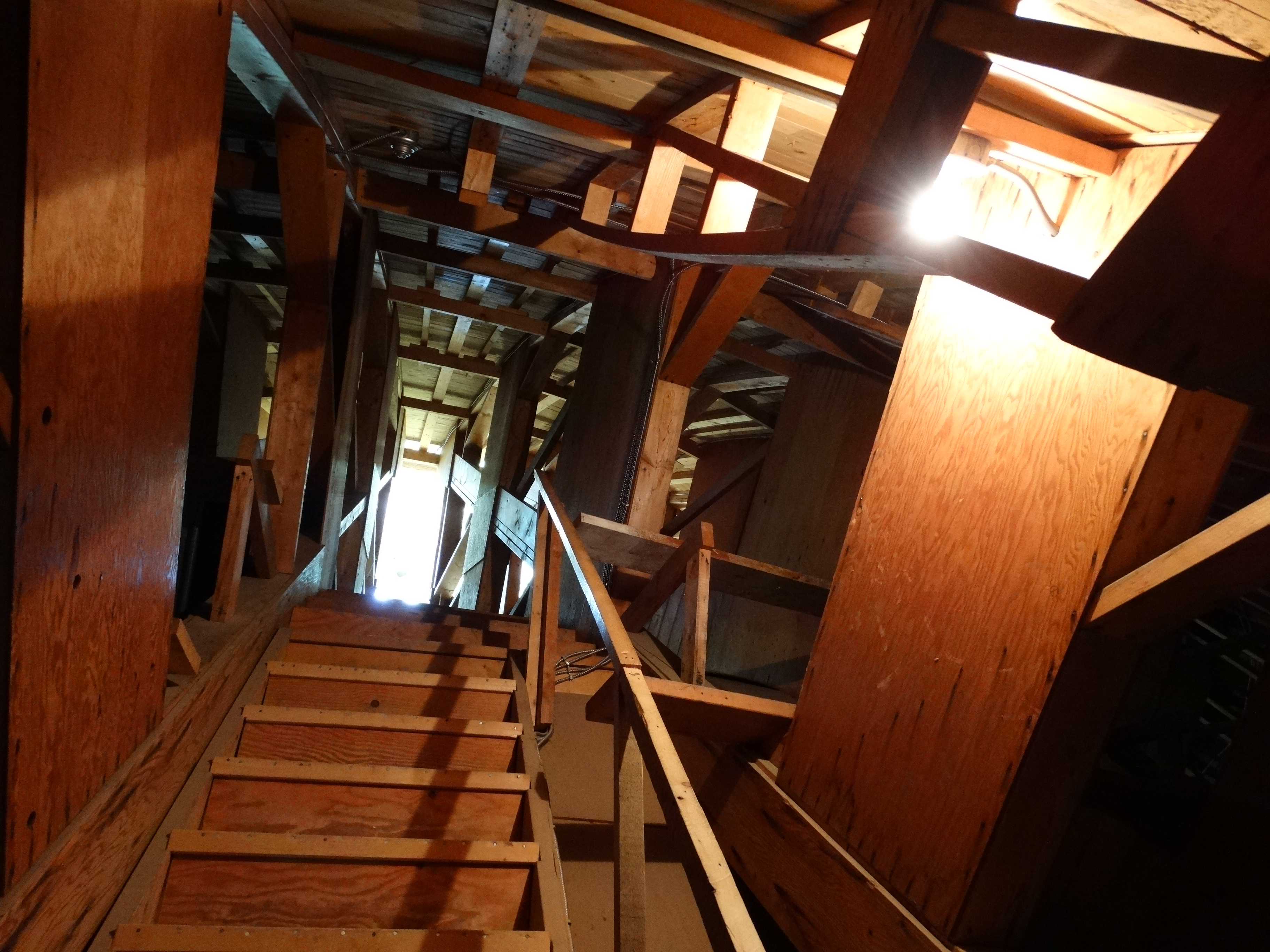 Interior Vaulting of Our Lady of Victory - Igloo-Shaped Church - Inuvik - Northwest Territories - Canada - 01